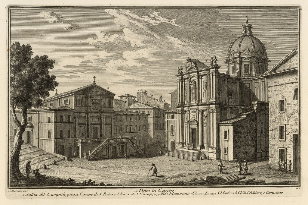 Stampa di Vasi